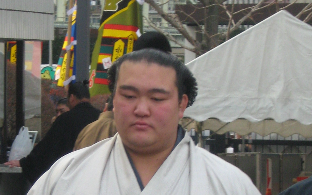 This is my picture, that I, User:FourTildes took with my own camera that I release the rights of. OK? 06:32, 31 May 2008 . . FourTildes . . 1,228×768 (314 KB)